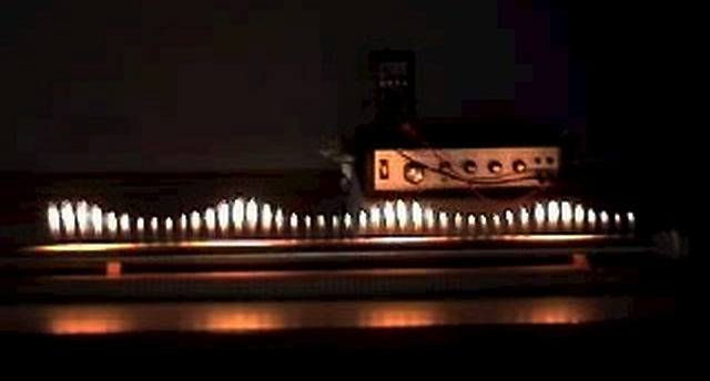 A Rubens' Tube setup, done at Hutt International Boys School, Wellington, New Zealand. Photo courtesy of Physics Department at Victoria University of Wellington, Wellington, New Zealand.